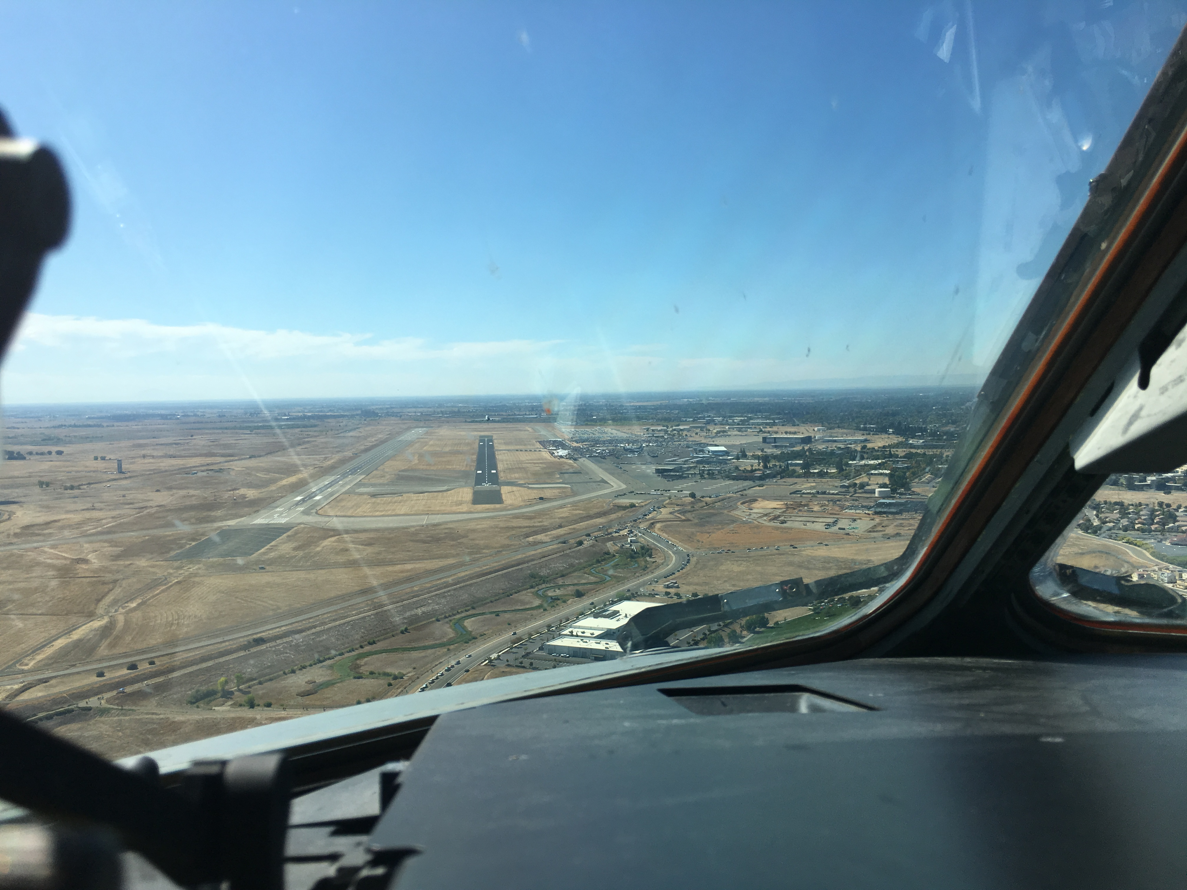 Airshow flyover C-17